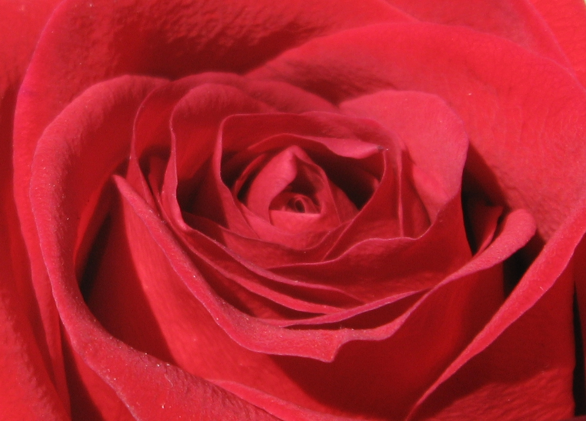 Macro of a Red Rose